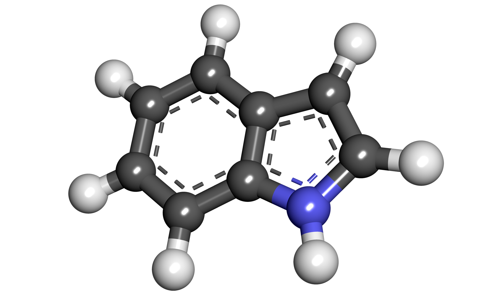 Ball and stick model of the indole molecule.